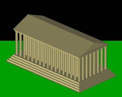 praetor_alpha pass one, step one, shadow mapping